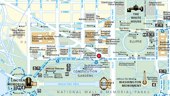 Map of Washington, DC, marking location of statue of Jose Gervasio Artigas